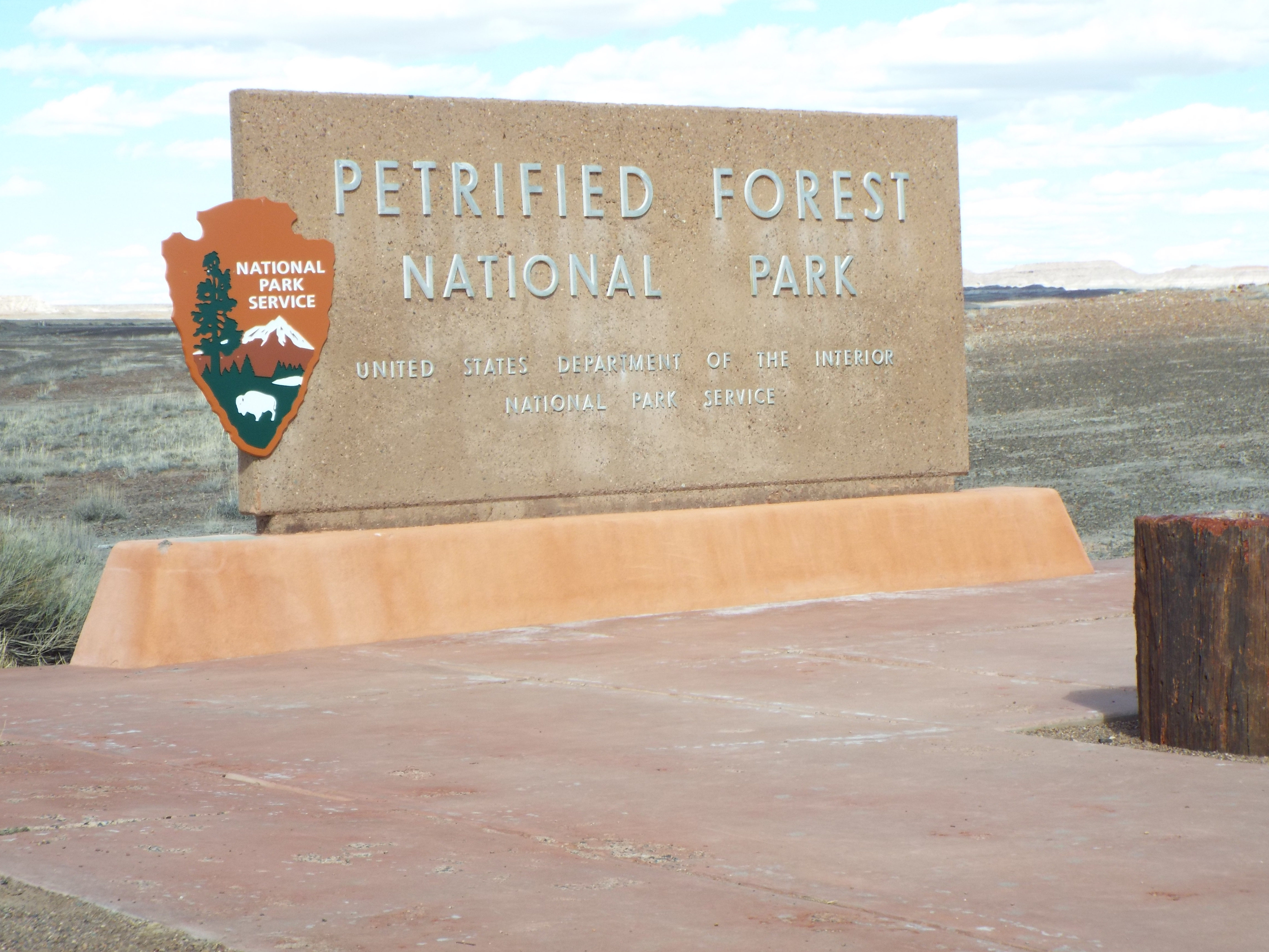 Petrified Forest National Park entrance.